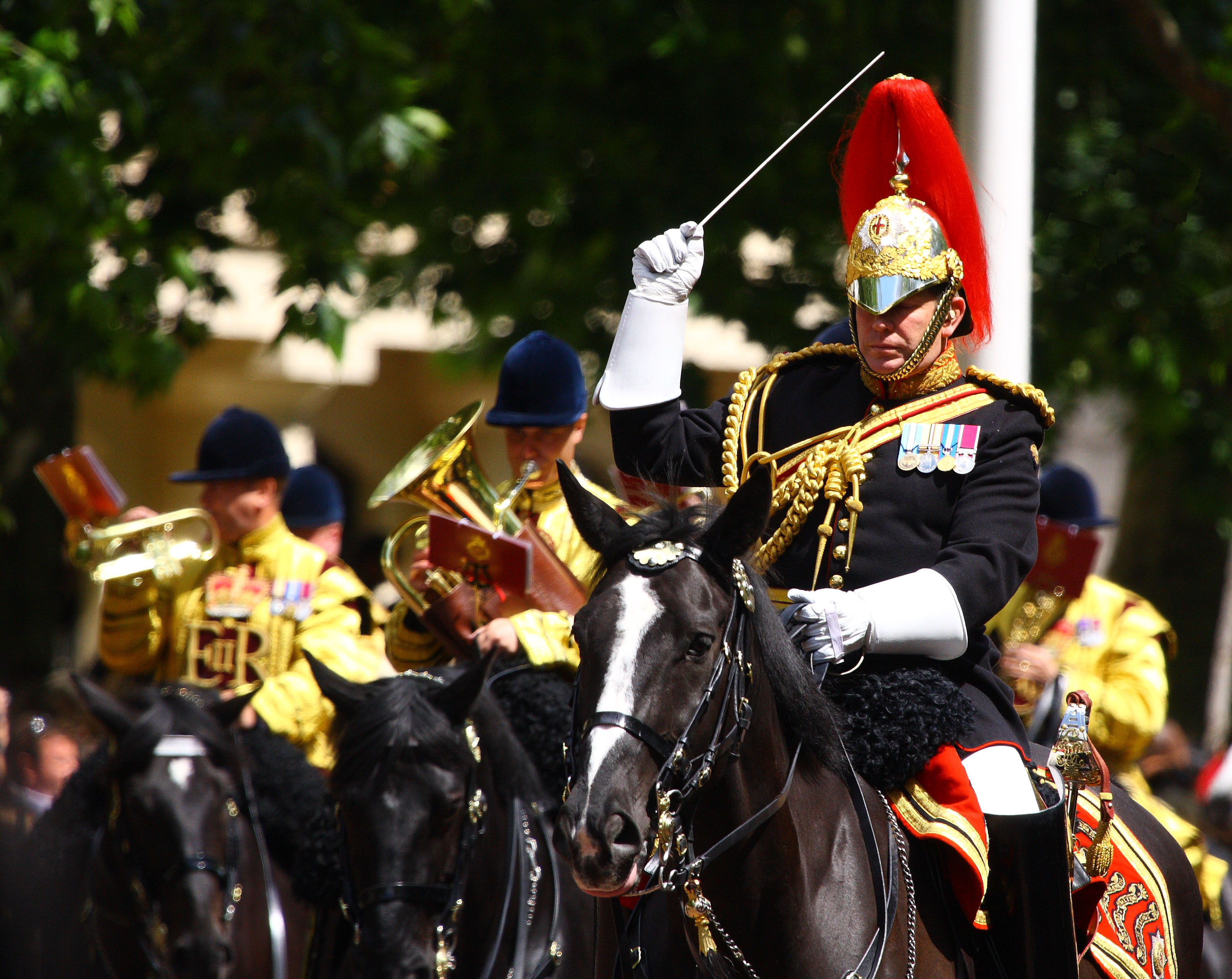 Trooping the Colour, London, 14 June 2008. The director of music of the Blues and Royals conducting the massed mounted bands of the Household Cavalry.